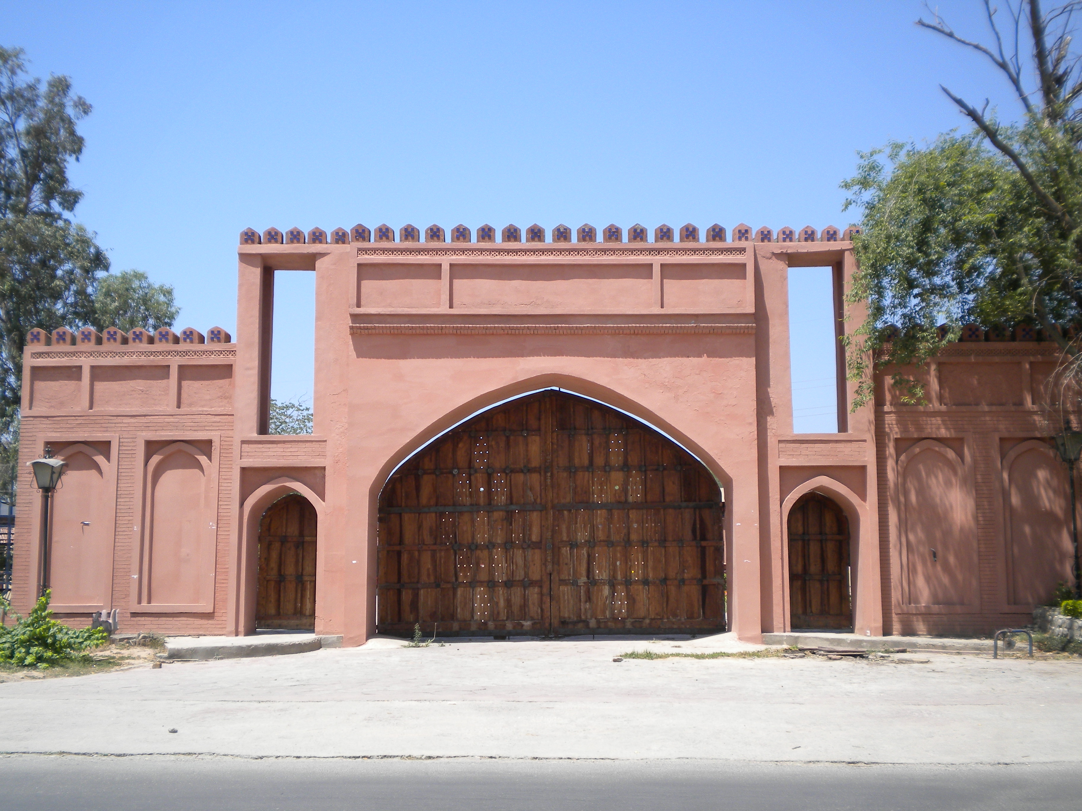 Big Size Pakistani Gate